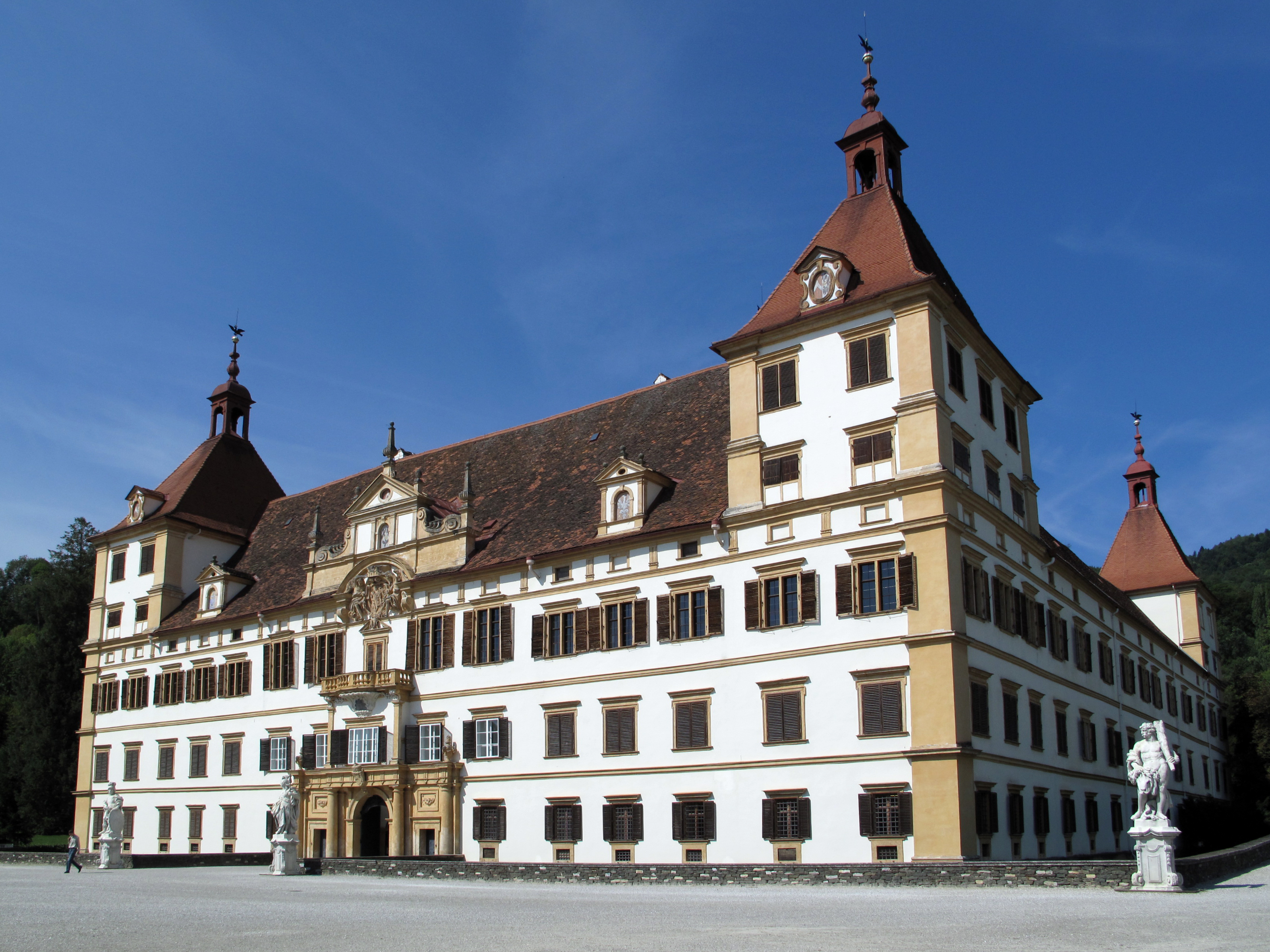 Palace Eggenber